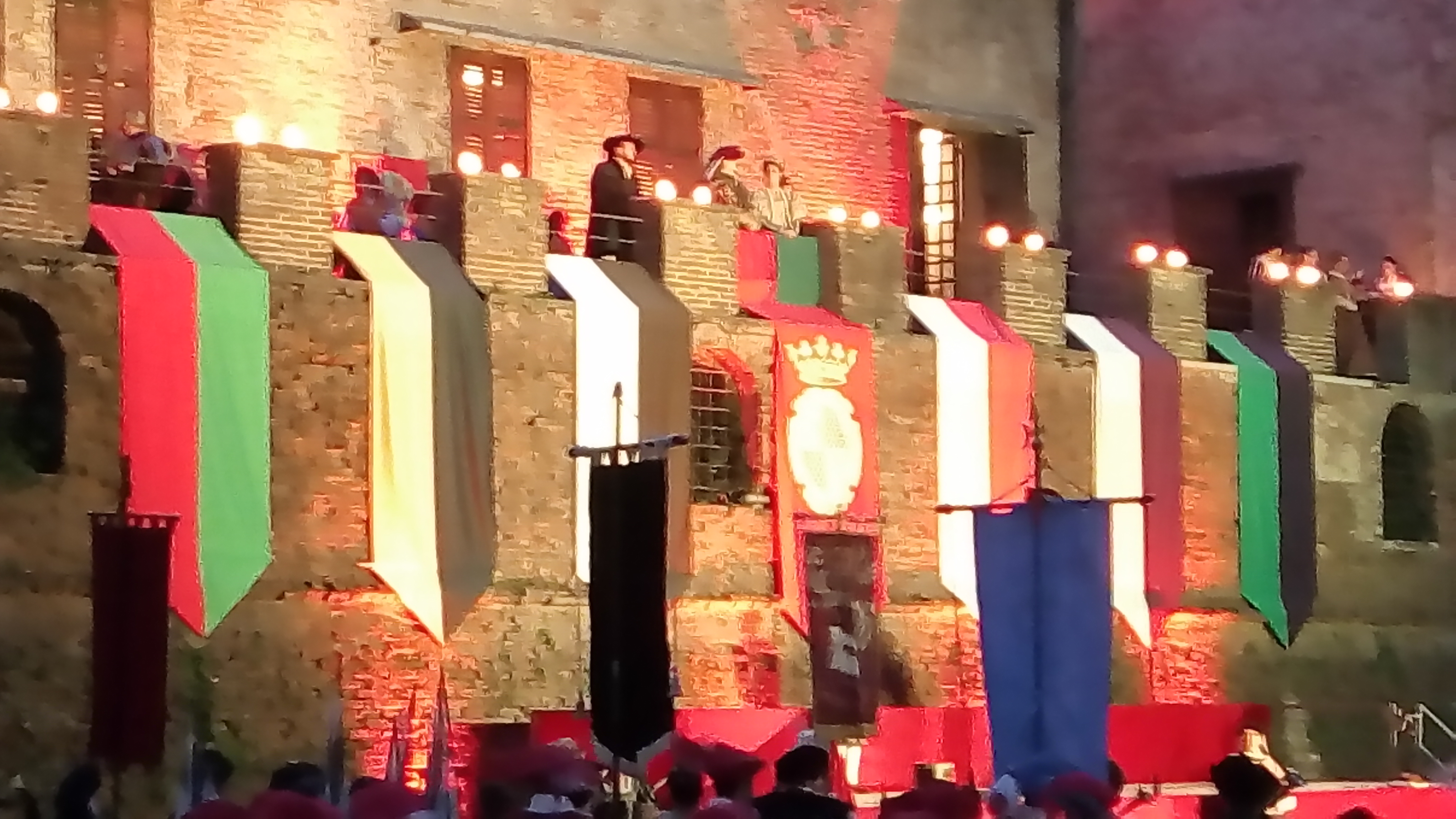 Palio of San Secondo Rossi Court